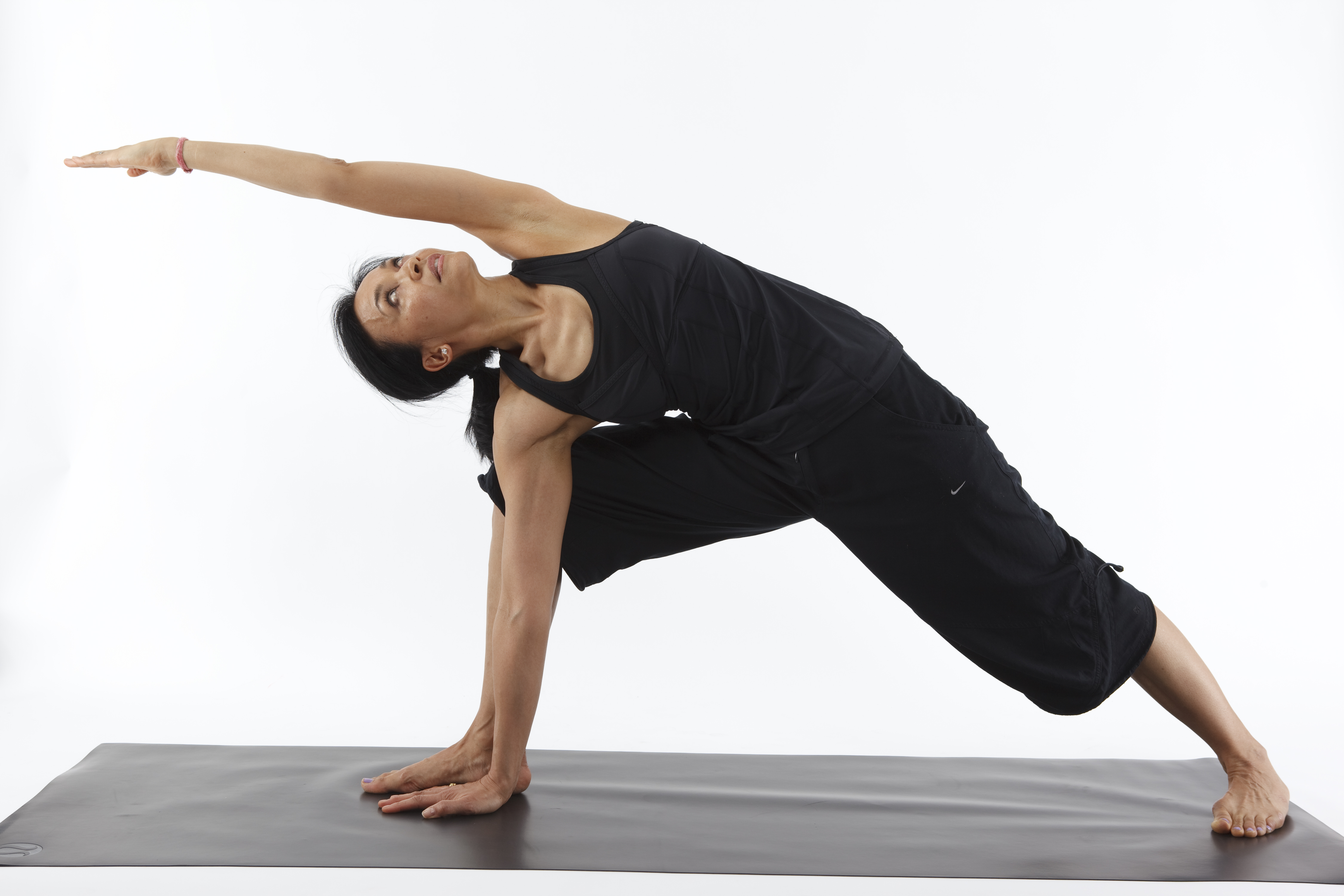 Parsvakonasana Utthita B - Revolved Side Angle Pose B - Elbow Support Standing